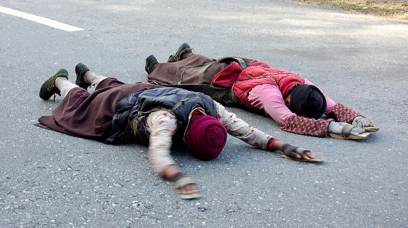 Tibetans on a pilgrimage to Lhasa; they are kow-towing every few steps.